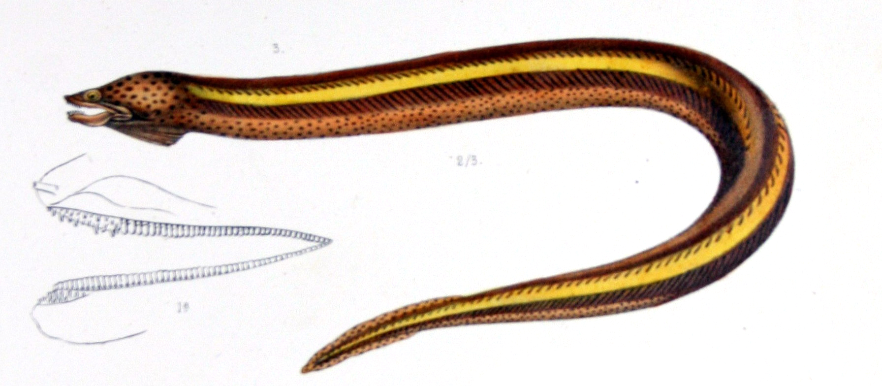 Synbranchus vittatus = Synbranchus marmoratus